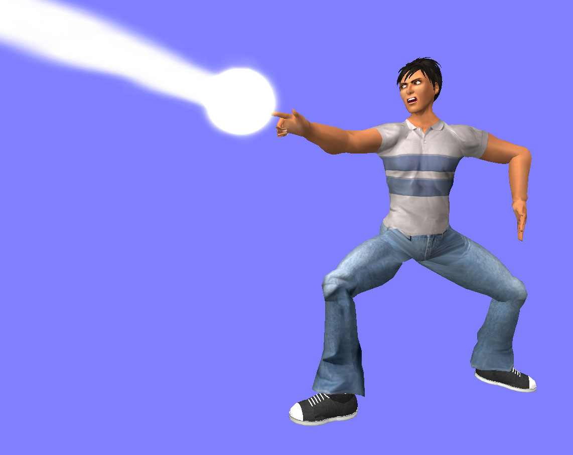 Pose of Dodompa technique used by characters from Dragon Ball